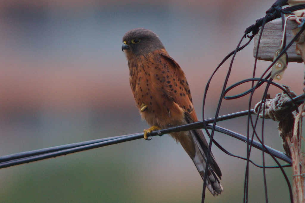 A Rock Kestrel perched on a wire close to its nesting site in Dana Bay (Mossel Bay), Western Cape, South Africa.